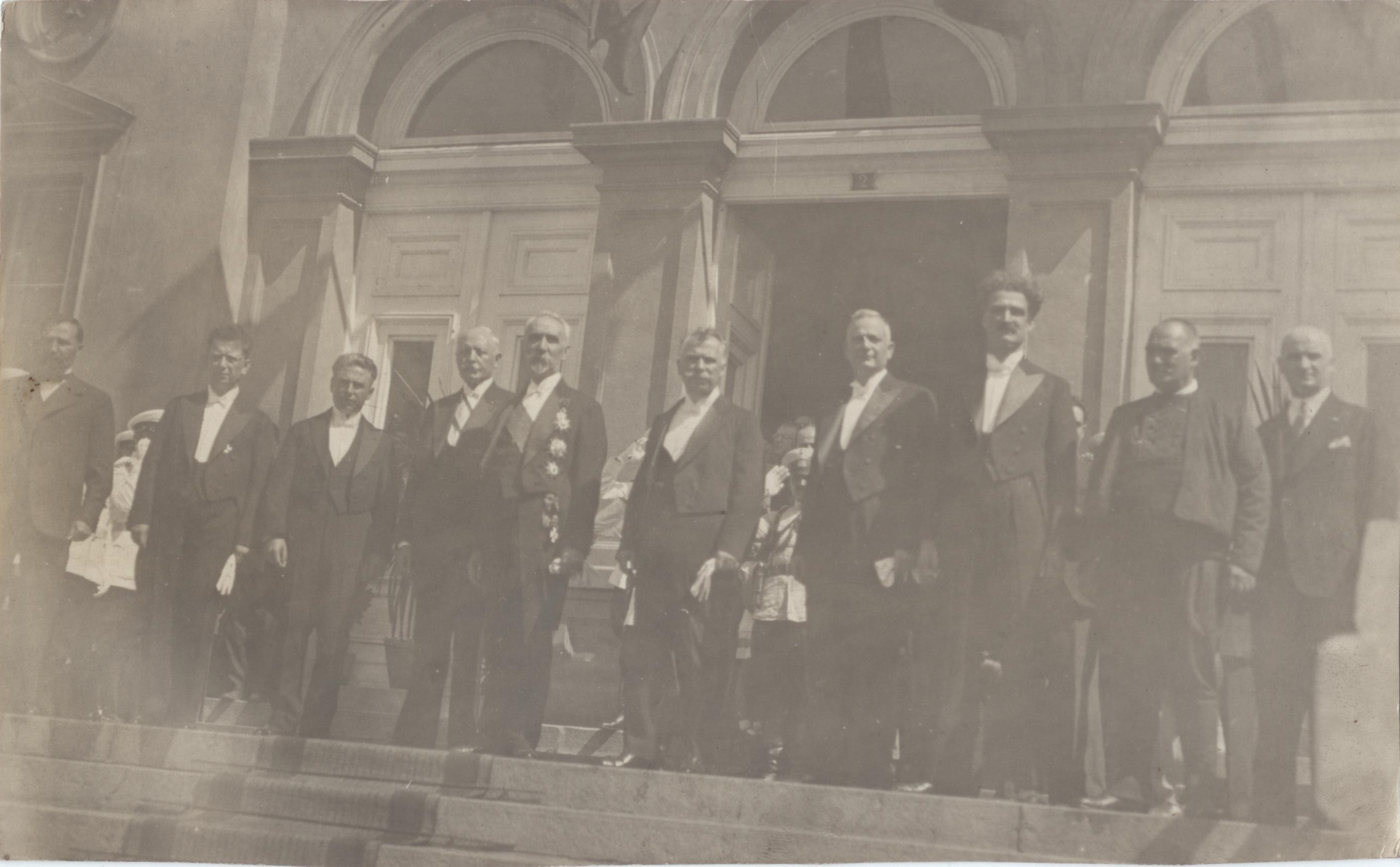 47-th Bulgarian Government with prime minister Aleksander Malinov (29 June 1931 – 12 October 1931)